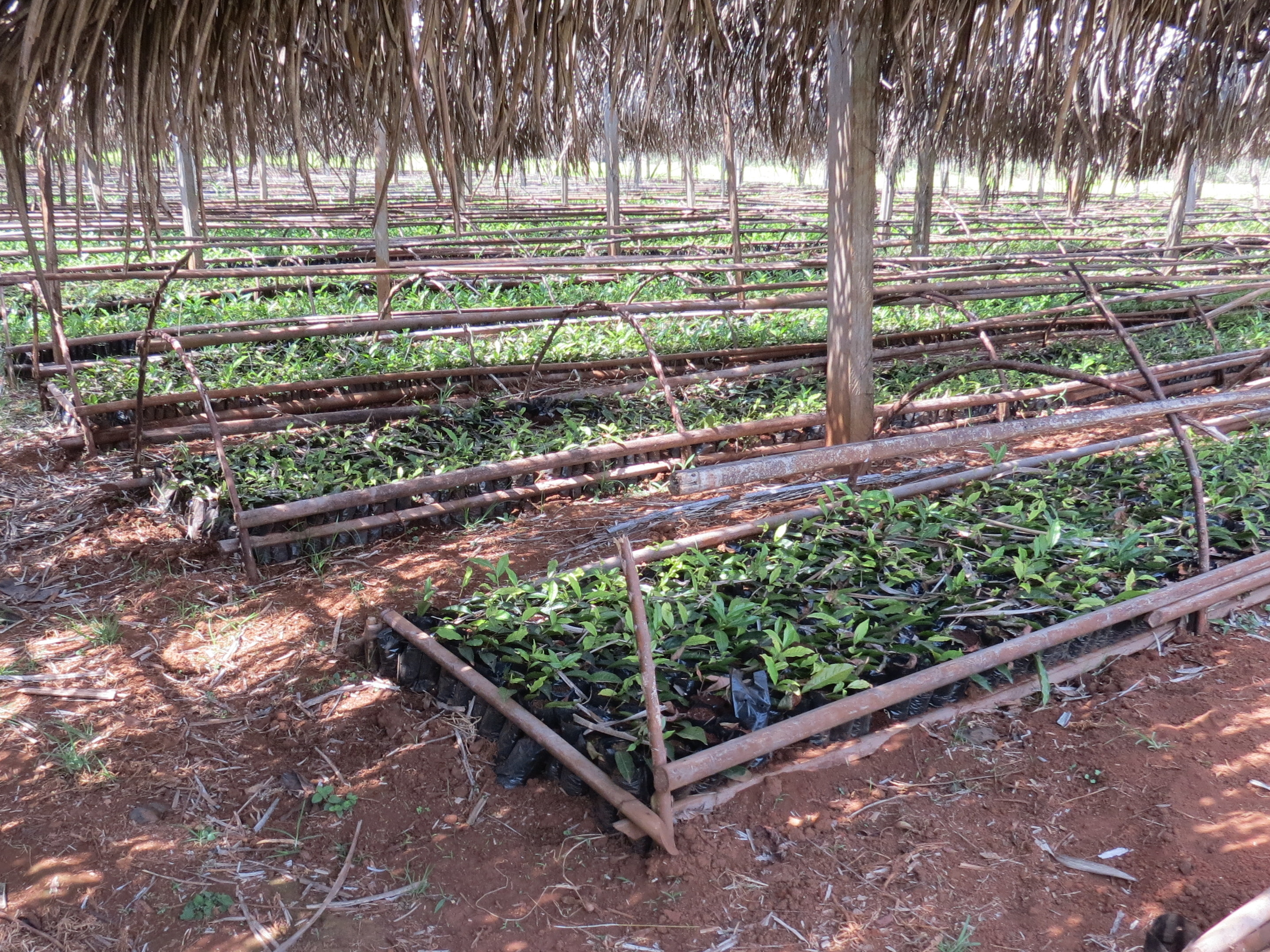 Nursery of young tea plants on Ndawara tea plantation (Cameroon)